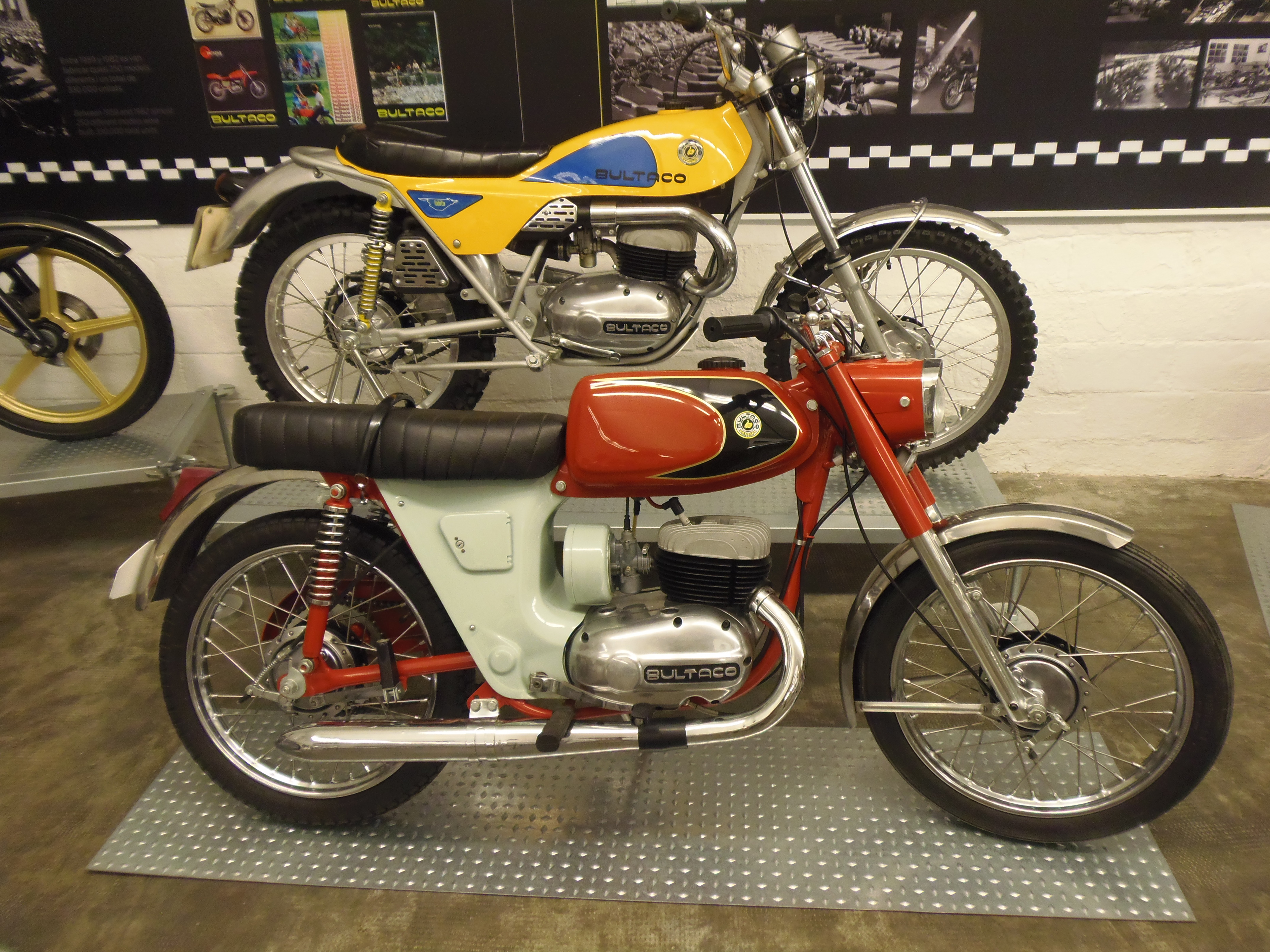 Up: Bultaco Lobito MK6, 74 cc, 1973. Down: Bultaco Junior GT2, 74 cc, 1973.